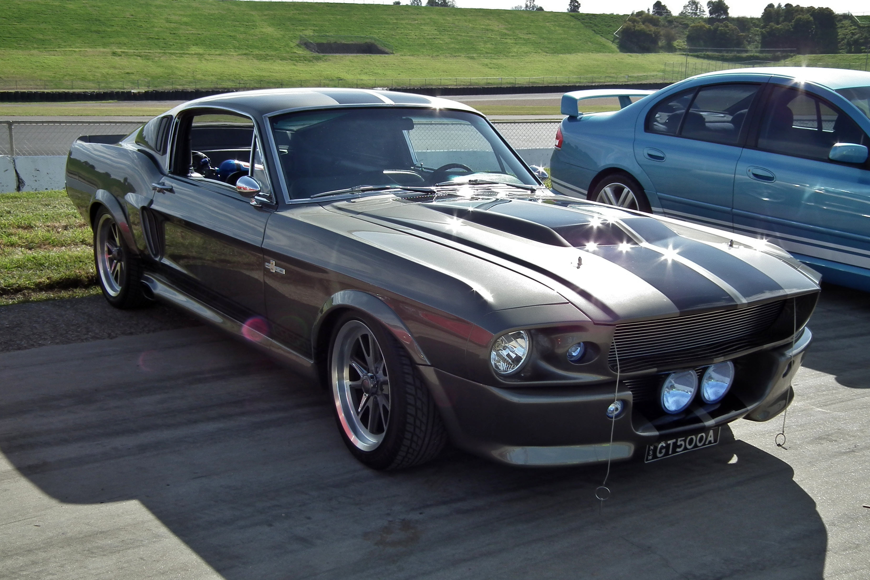 1968 Ford Mustang Shelby GT 500 fastback - Eleanor replica. Taken at the 2011 New South Wales All Ford Day, held at Eastern Creek Raceway.